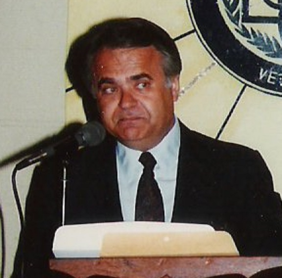 Closely cropped view of Judge Bohdan A. Futey of the United States Court of Federal Claims.